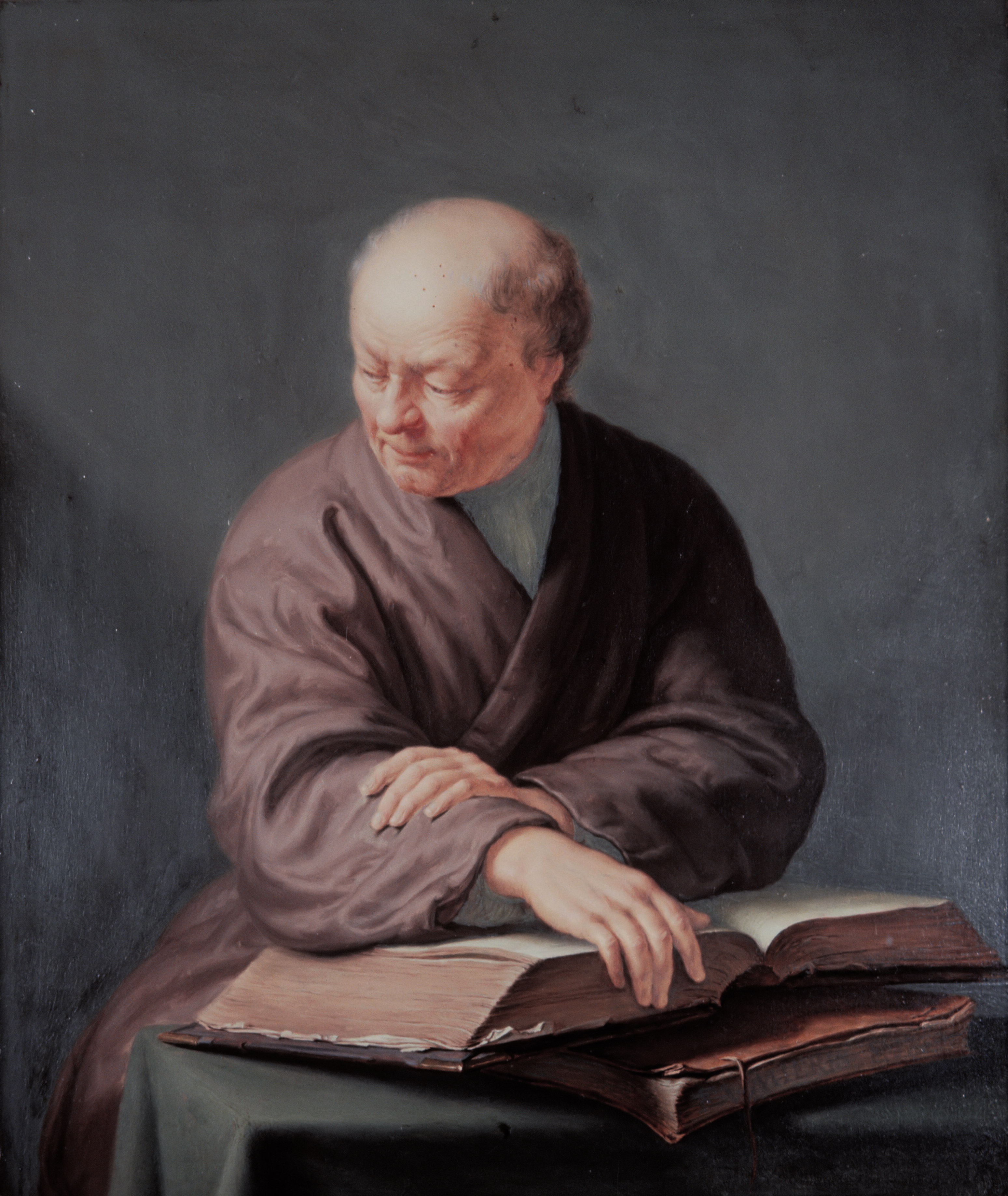 Willem van Mieris (1662-1747) oil on panel 25,3 x 21,8 cm 1739